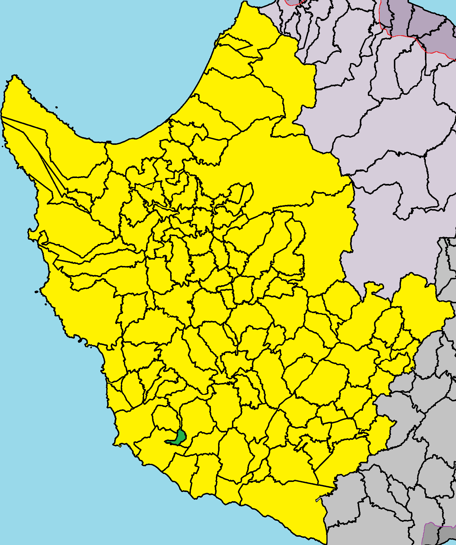 Agia Marinouda in Paphos District.